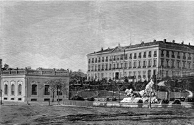 Cibeles Square, Madrid, Spain, 19th century